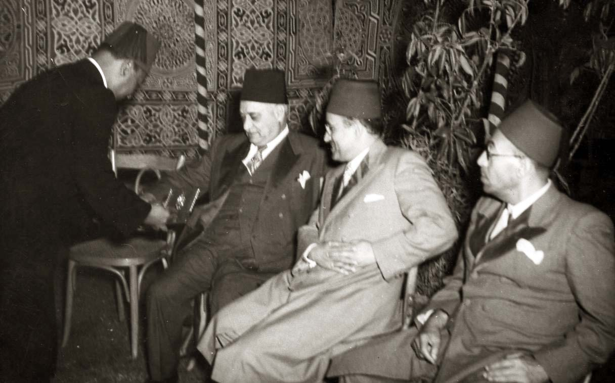 A servant presenting cigarettes to Abbud Pasha.